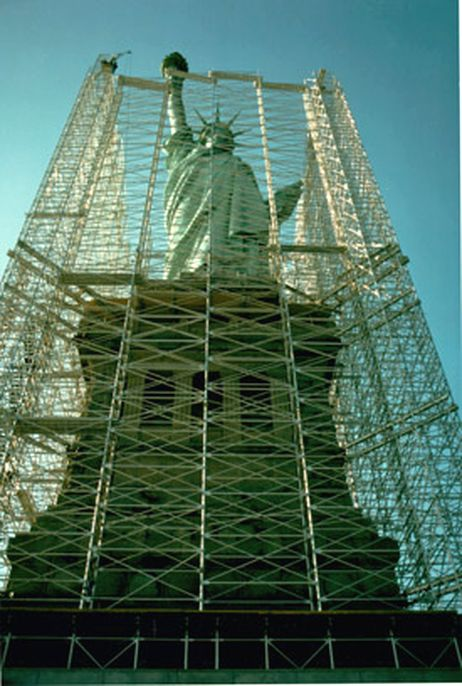 Photo of Restoration of the Statue of Liberty 1984-1986